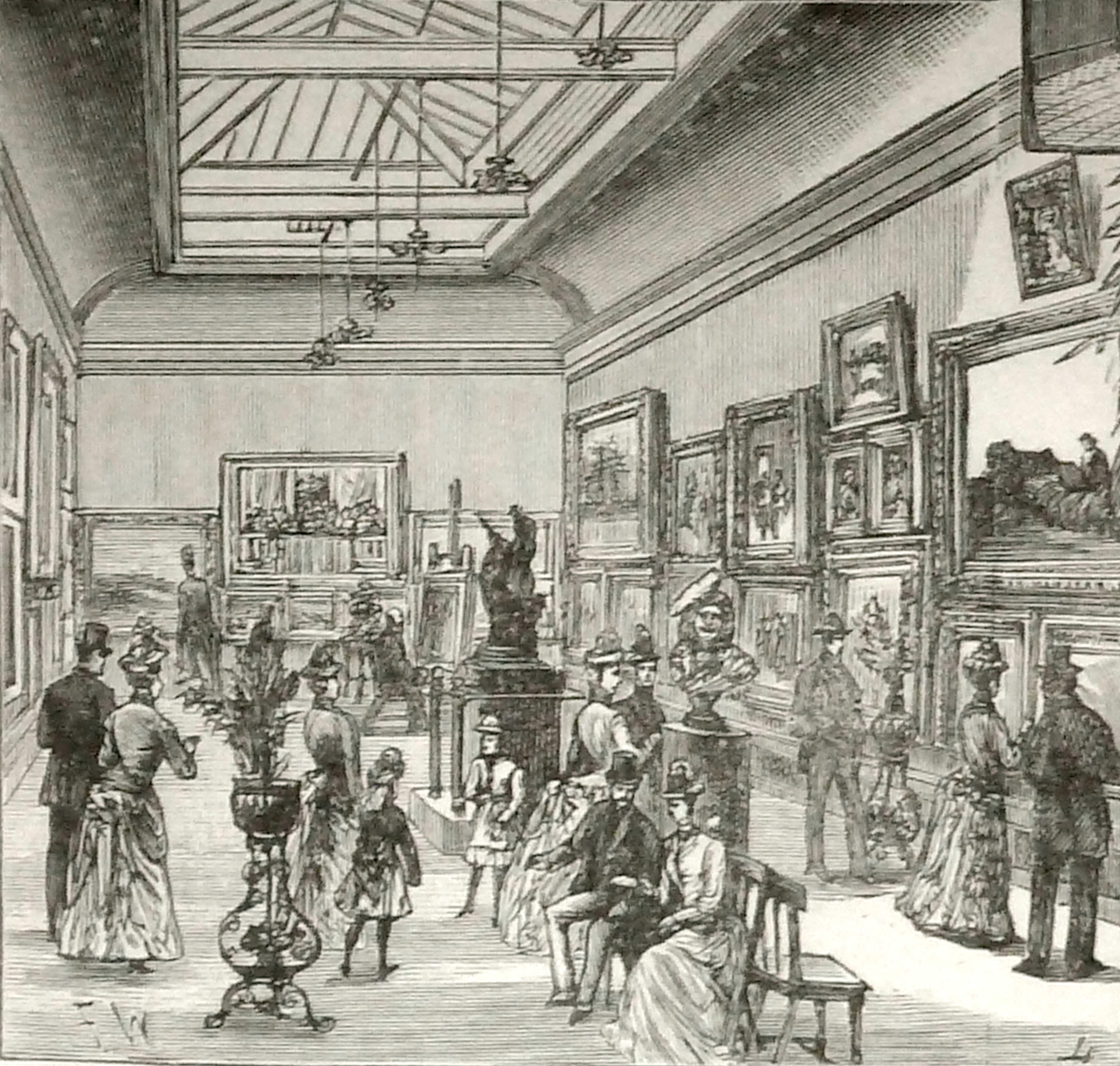 1888 engraving from photograph of the interior of Leeds City Art Gallery, designed in 1886 by J.W. Thorp of Albion Street, Leeds, and completed in 1888. Showing North Room.